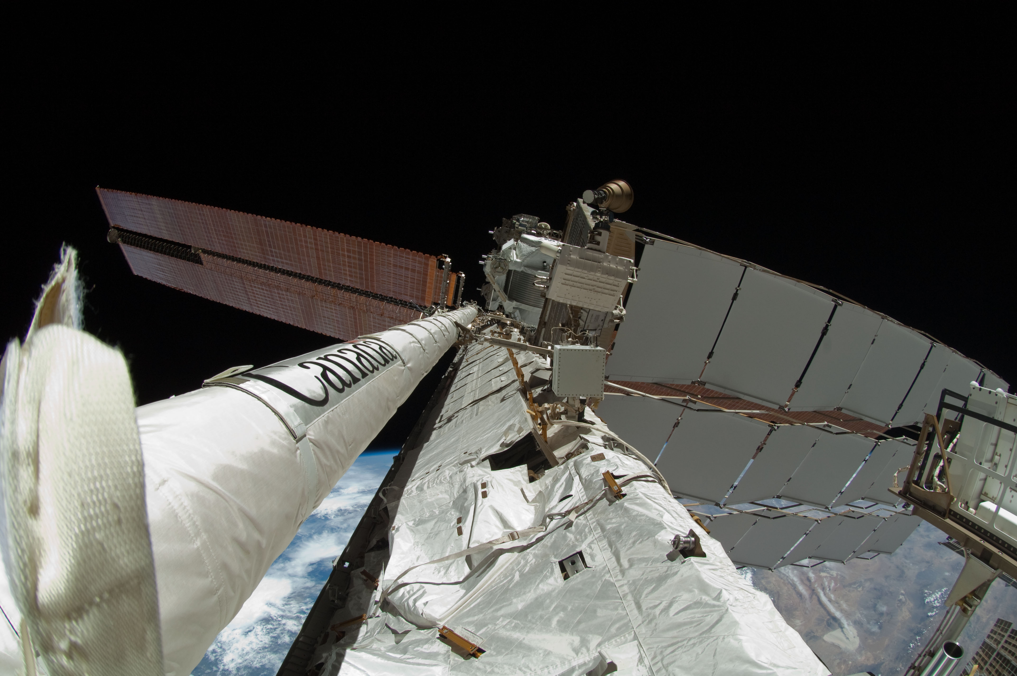 The newly-attached 50-foot-long Enhanced International Space Station Boom Assembly (left) is featured in this image photographed by a spacewalker, using a fish-eye lens attached to an electronic still camera, during the STS-134 mission's fourth session of extravehicular activity (EVA).